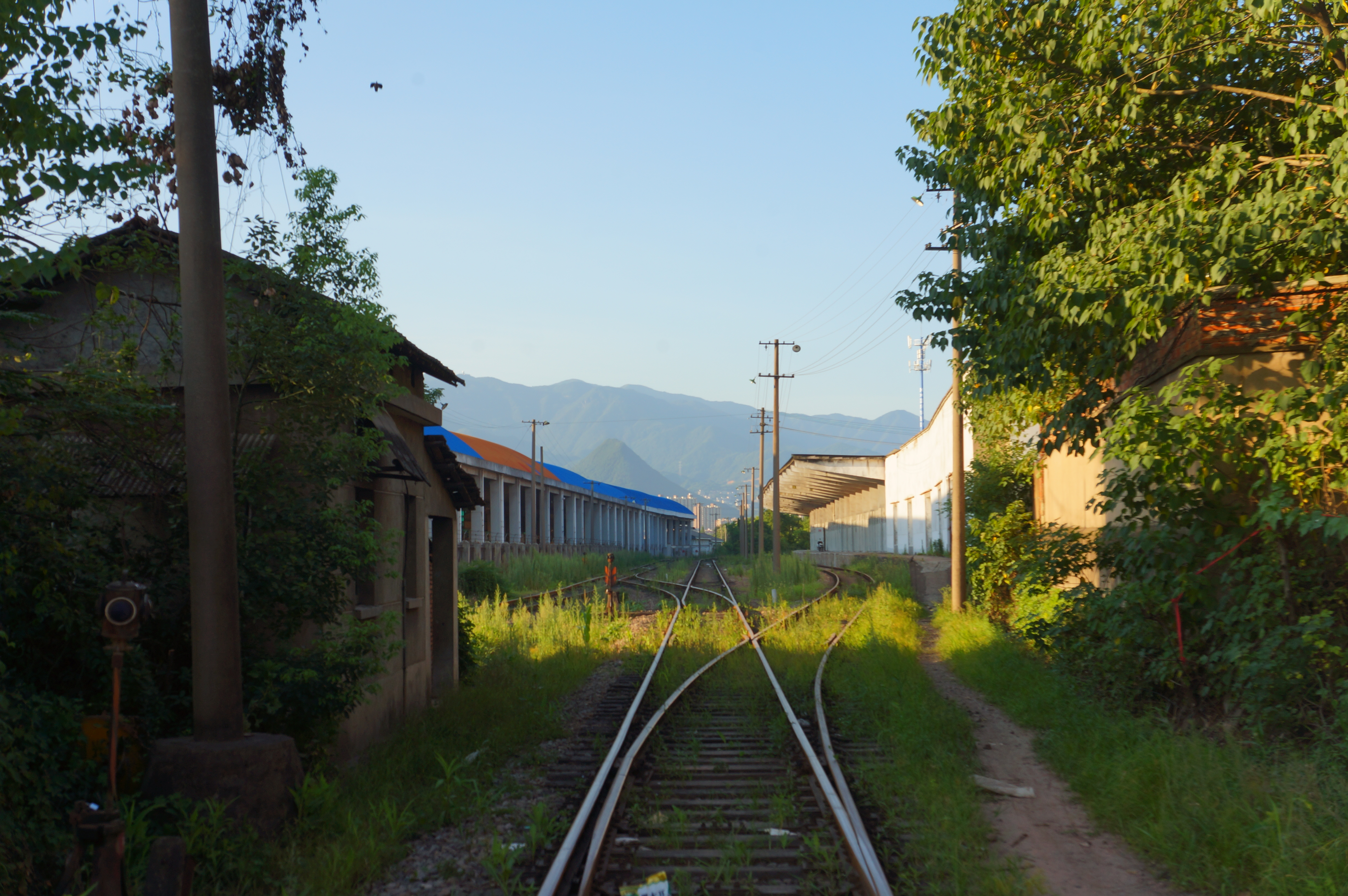 201607 601 Station, Jinhua